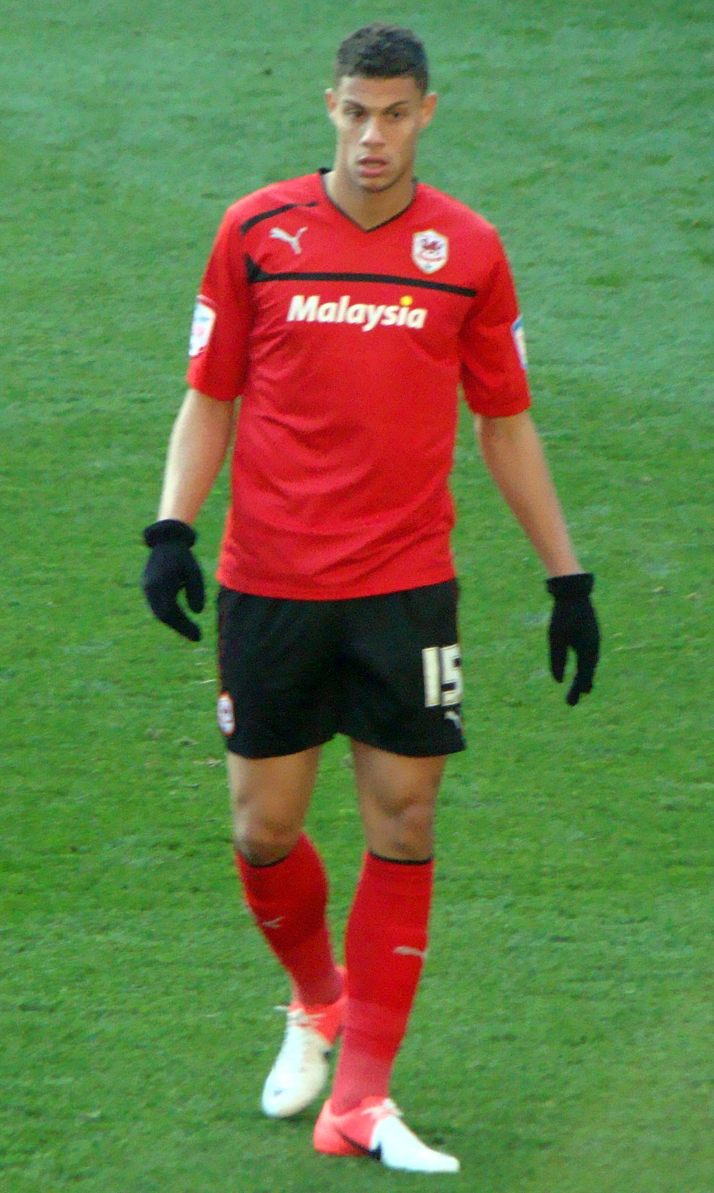 27/10/12 Cardiff v Burnley, Championship, Cardiff City Stadium, Cardiff, Wales